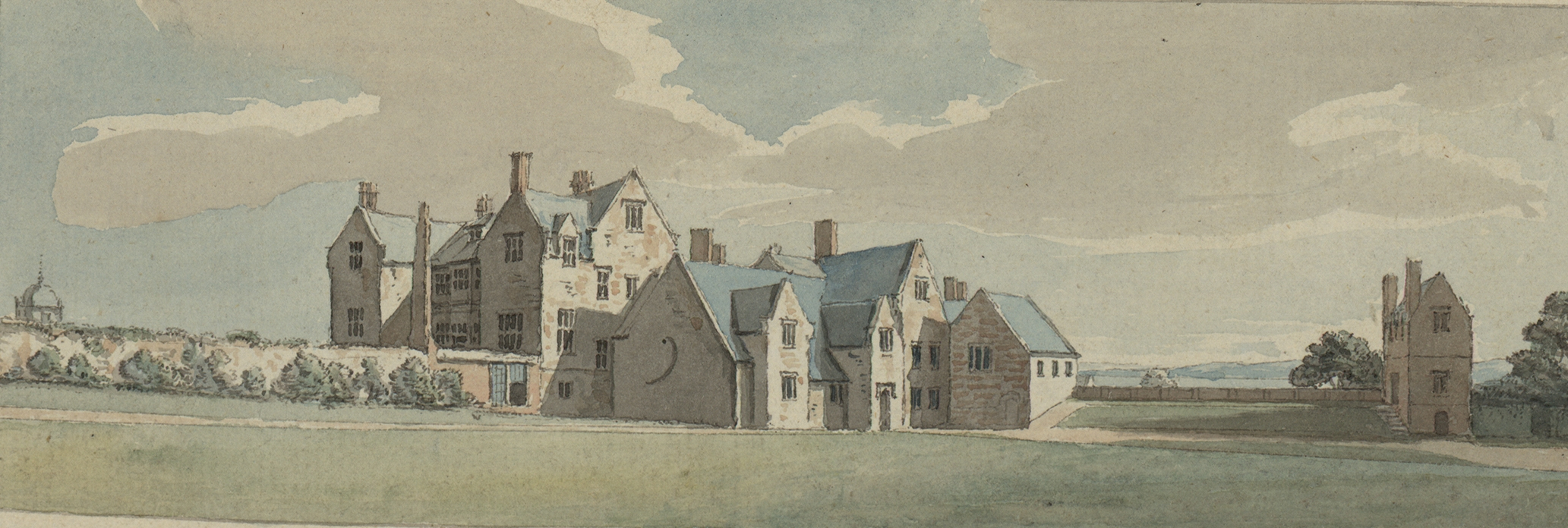 An image from a set of 8 extra-illustrated volumes of A tour in Wales by Thomas Pennant (1726-1798) that chronicle the three journeys he made through Wales between 1773 and 1776. These volumes are unique because they were compiled for Pennant's own library at Downing. This edition was produced in 1781. The volumes include a number of original drawings by Moses Griffiths, Ingleby and other well known artists of the period. Thomas Pennant (1726-1798)